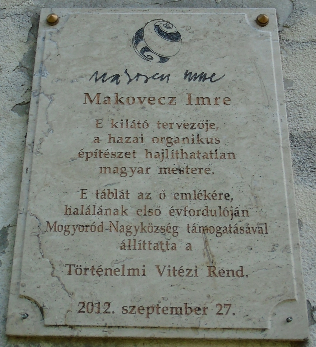 Commemorative plaque of Imre Makovecz on Szent László observation tower in Mogyoród.